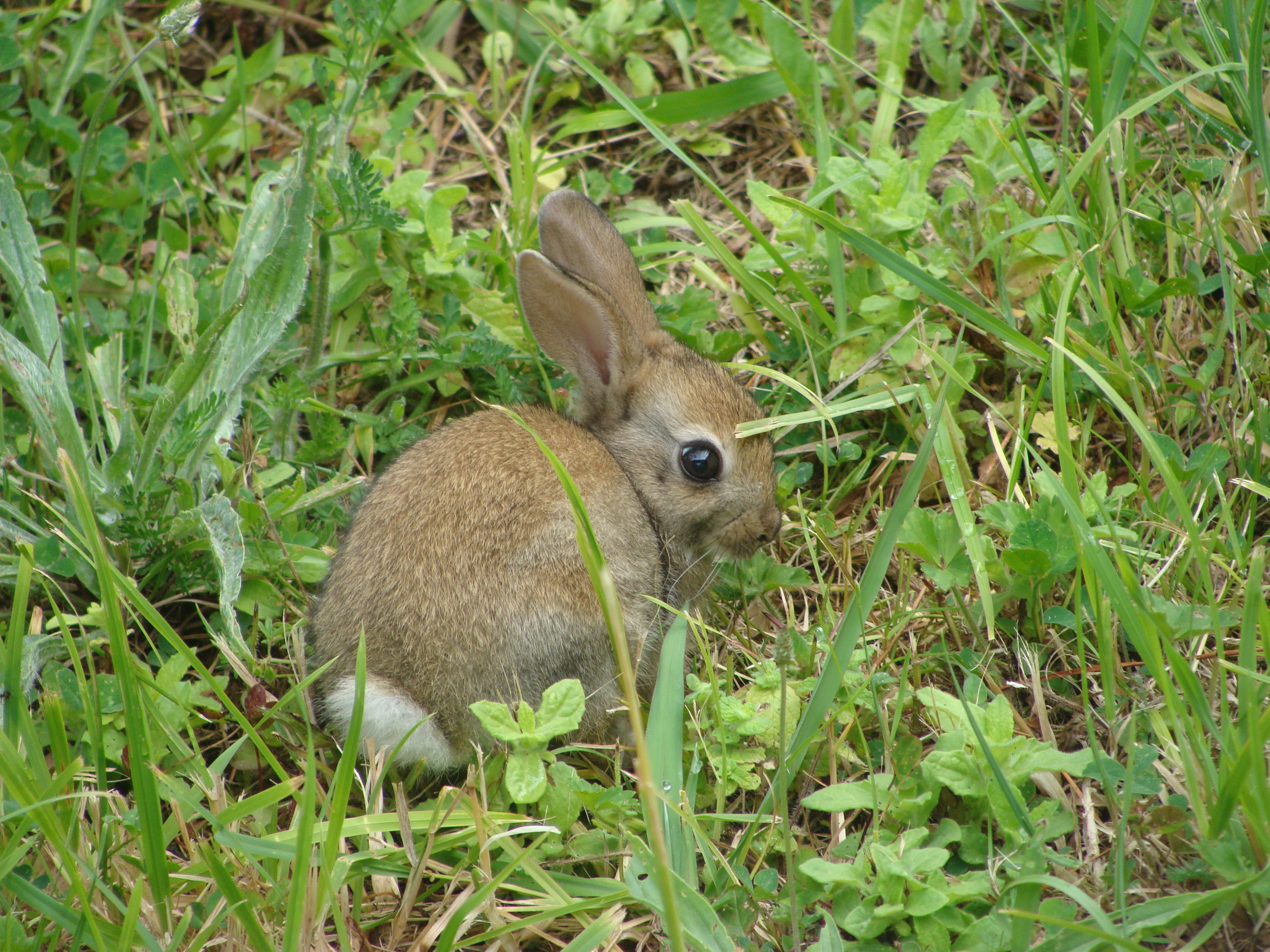 Oryctolagus cuniculus (Rabbit) in Culleredo, A Coruña, Galicia, Spain.